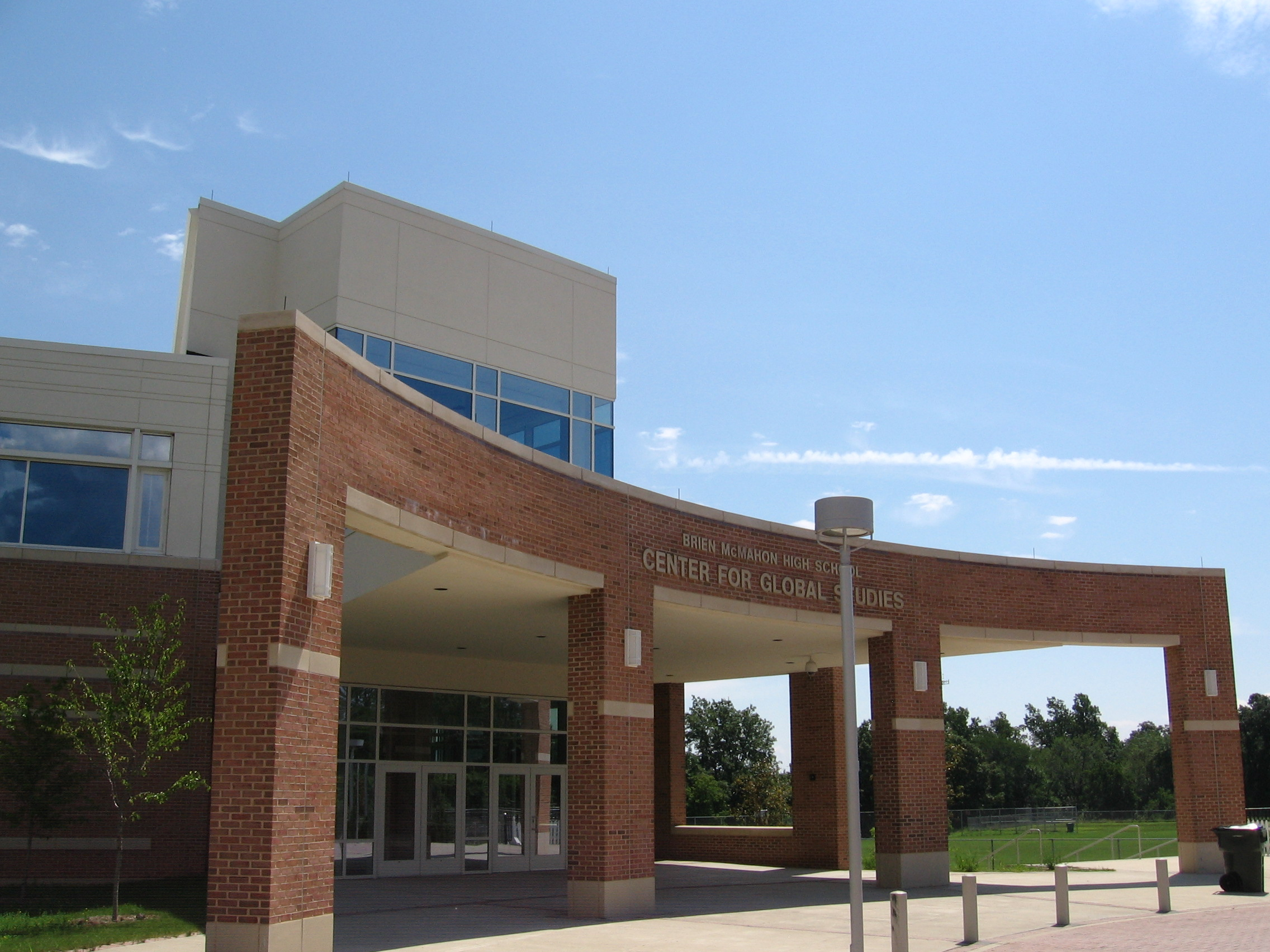 Entrance to the Center for Global Studies at Brien McMahon High School in Norwalk. The entrance is at the southern end of the building.